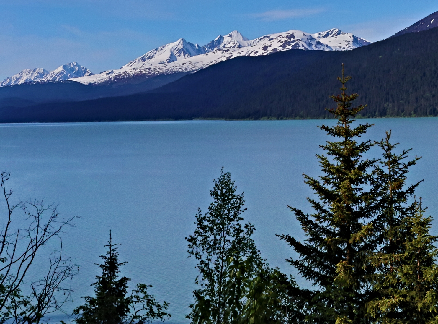 Kenai Lake with Mt. Ascension centered, and Resurrection Peaks to left edge of frame